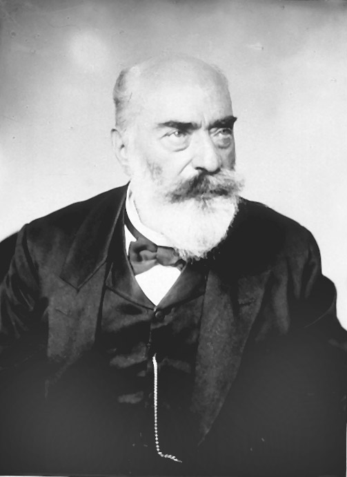 George Rümker, second director of Hamburg observatory, around 1895